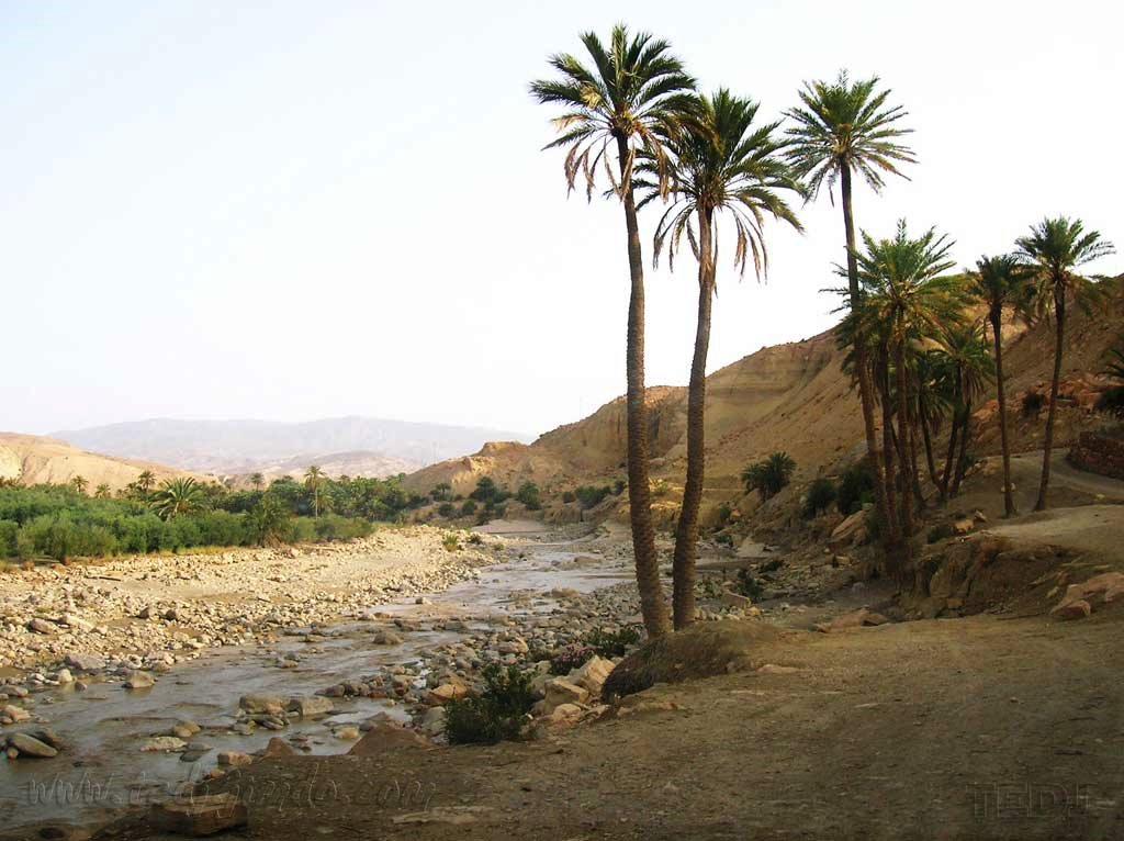 Oasis El Oueldja south Khenchela Aures.